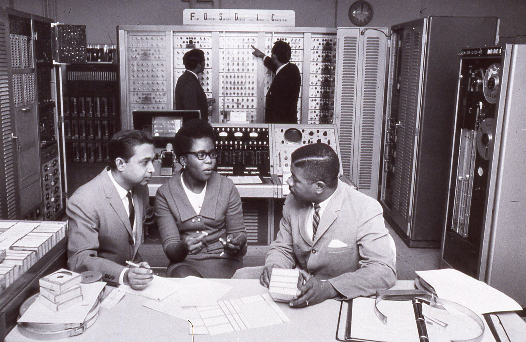 We used Film Optical Sensing Device for Input to Computers (FOSDIC) to transfer data from paper questionnaires to microfilm from the 1960 through 1990 Censuses. [1]